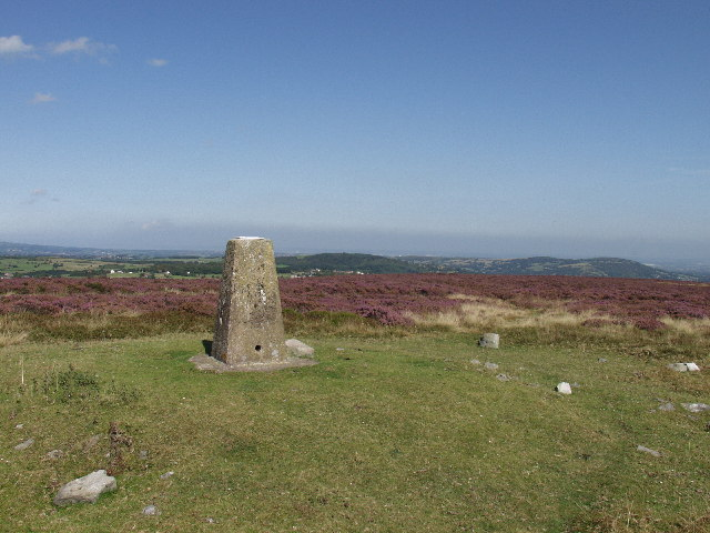 Trig point on Esclusham Mountain. The sheep always seem to keep the area around a trig point clear. The camera view is looking out across the Dee Estuary.